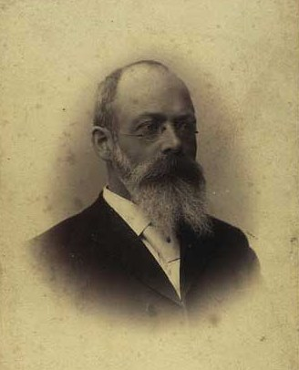 Eduard Emil Wiinblad (1854-1935), Danish editor and politician, MP